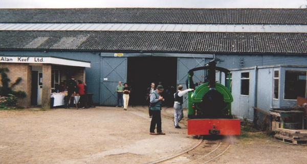 Alan Keef's works in Herefordshire, Open Day 1999 Author: Dan Crow